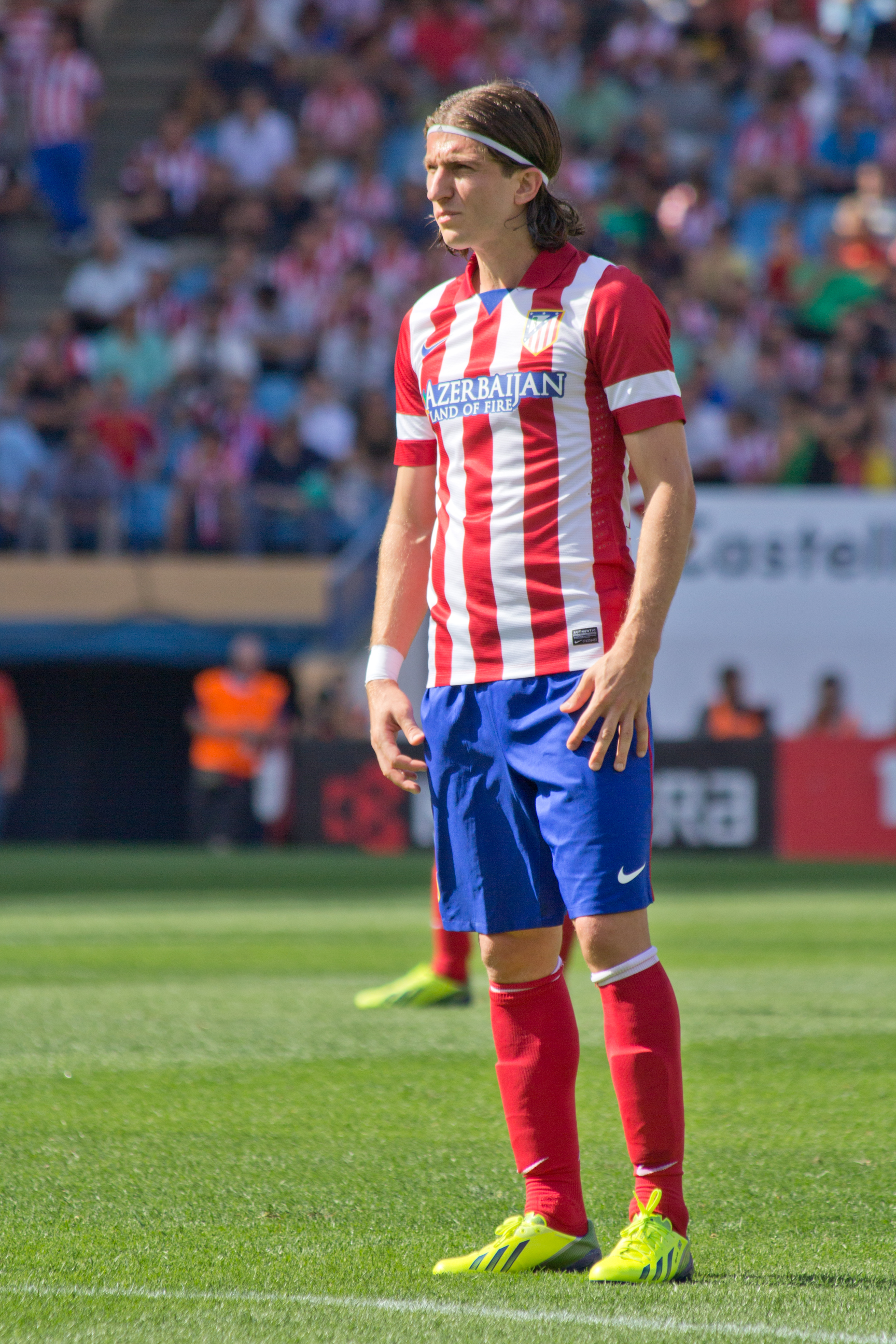 Filipe Luís, footballer of Atlético de Madrid.